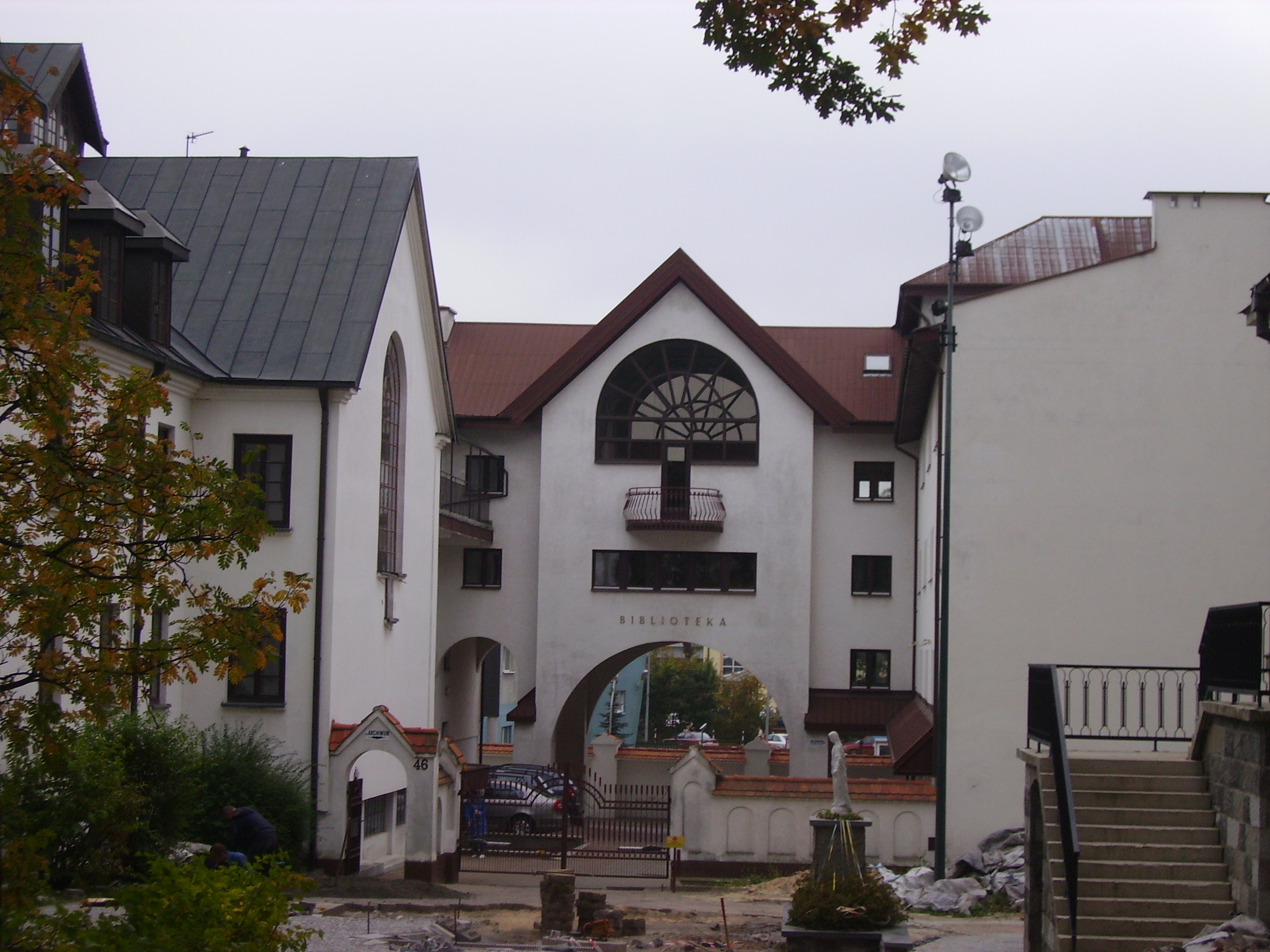 Archdiocesan Seminary in Białystok, Warszawska 46 street.